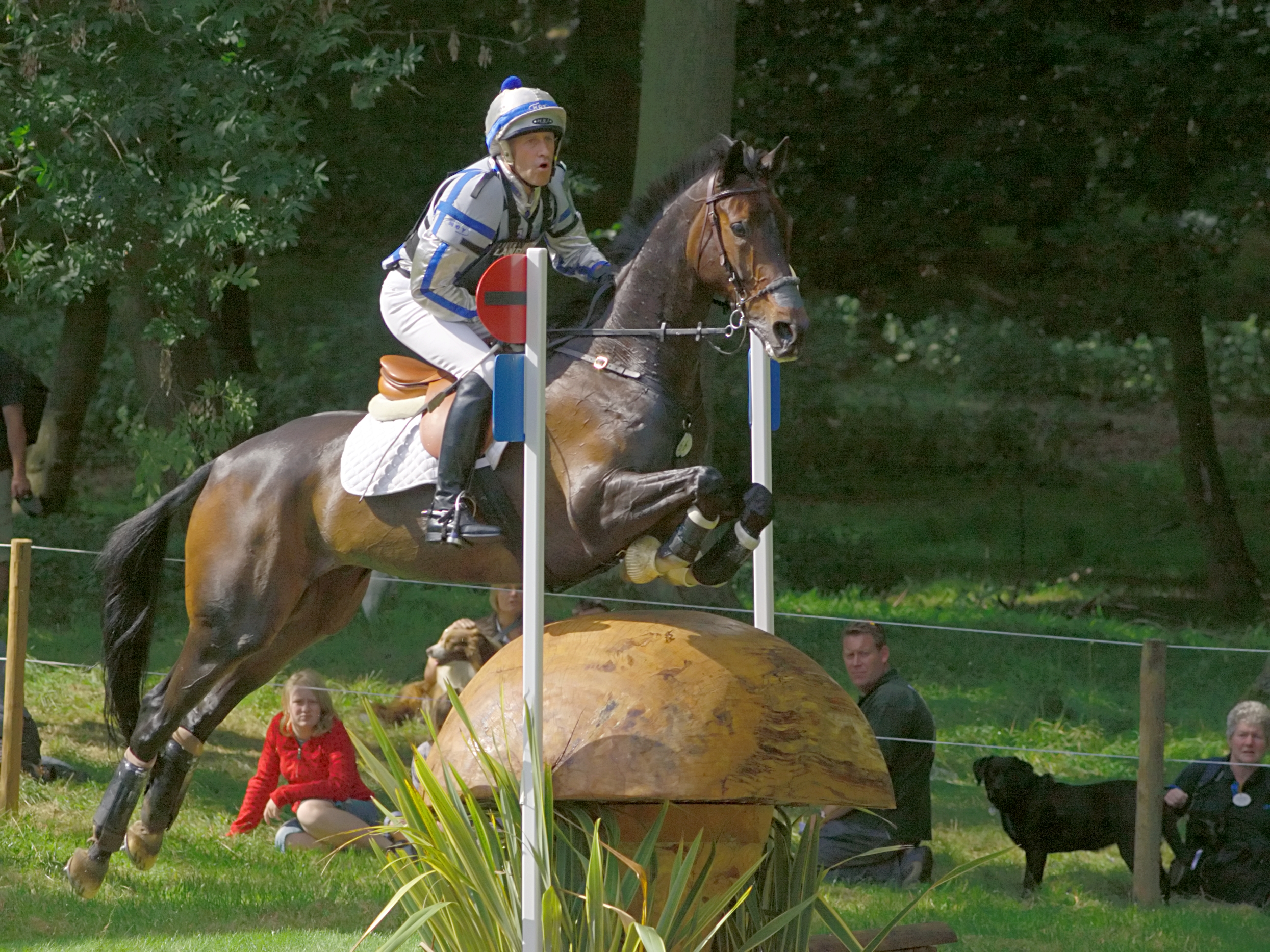 Andrew Hoy and Master Monarch jump one of the mushrooms at Coutts Curve during the cross-country phase of Burghley Horse Trials 2007.